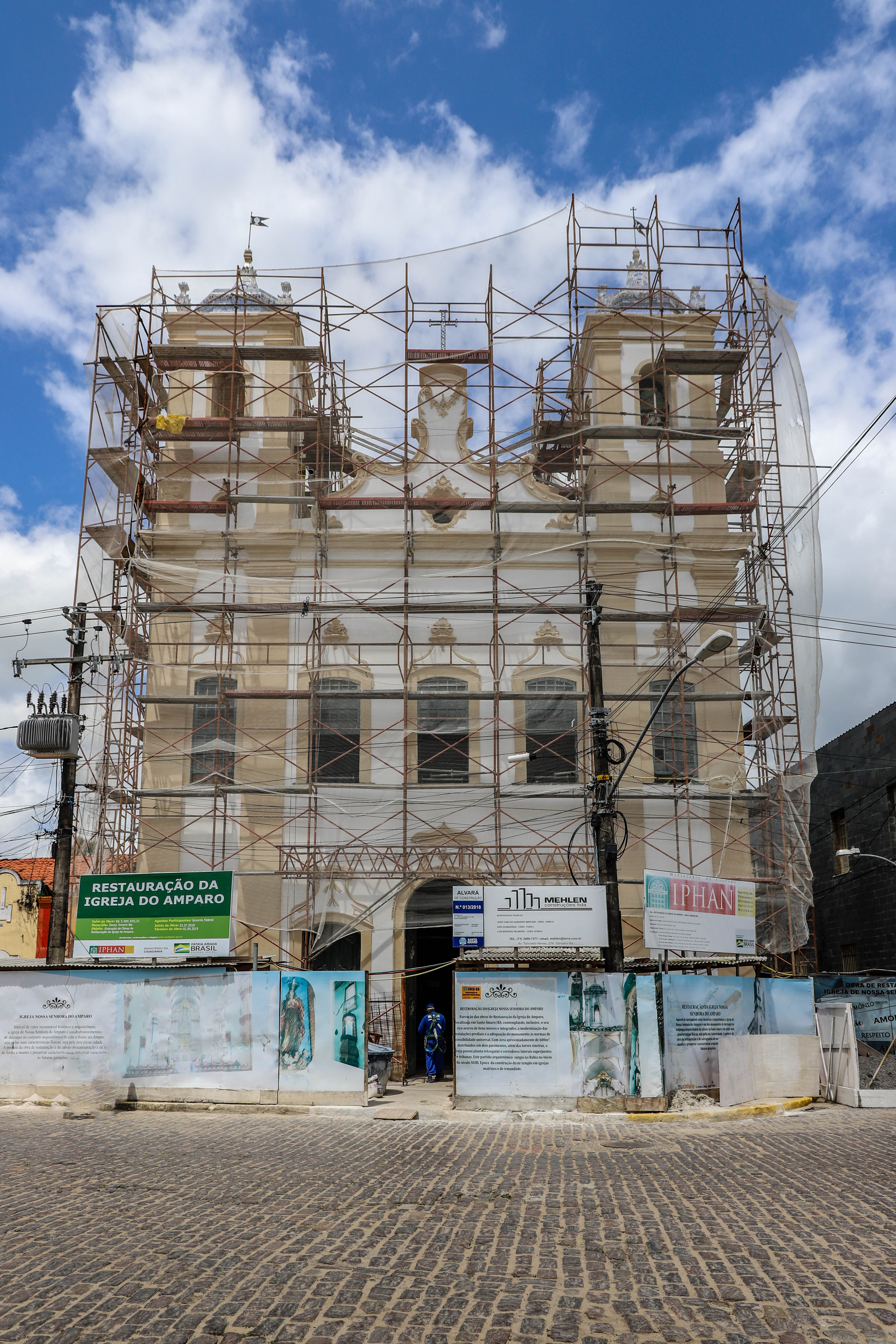 Church of Our Lady of Protection (Igreja de Nossa Senhora do Amparo) is a 19th-century Roman Catholic church located in Santo Amaro, Bahia, Brazil. The church is dedicated to Our Lady of Help and is part of the Roman Catholic Archdiocese of São Salvador da Bahia. The church belongs to the Brotherhood of Our Lady of Amparo. It has a nave, side corridors superimposed by galleries, a façade with monumental pediment, and bell towers on either side of the portals.